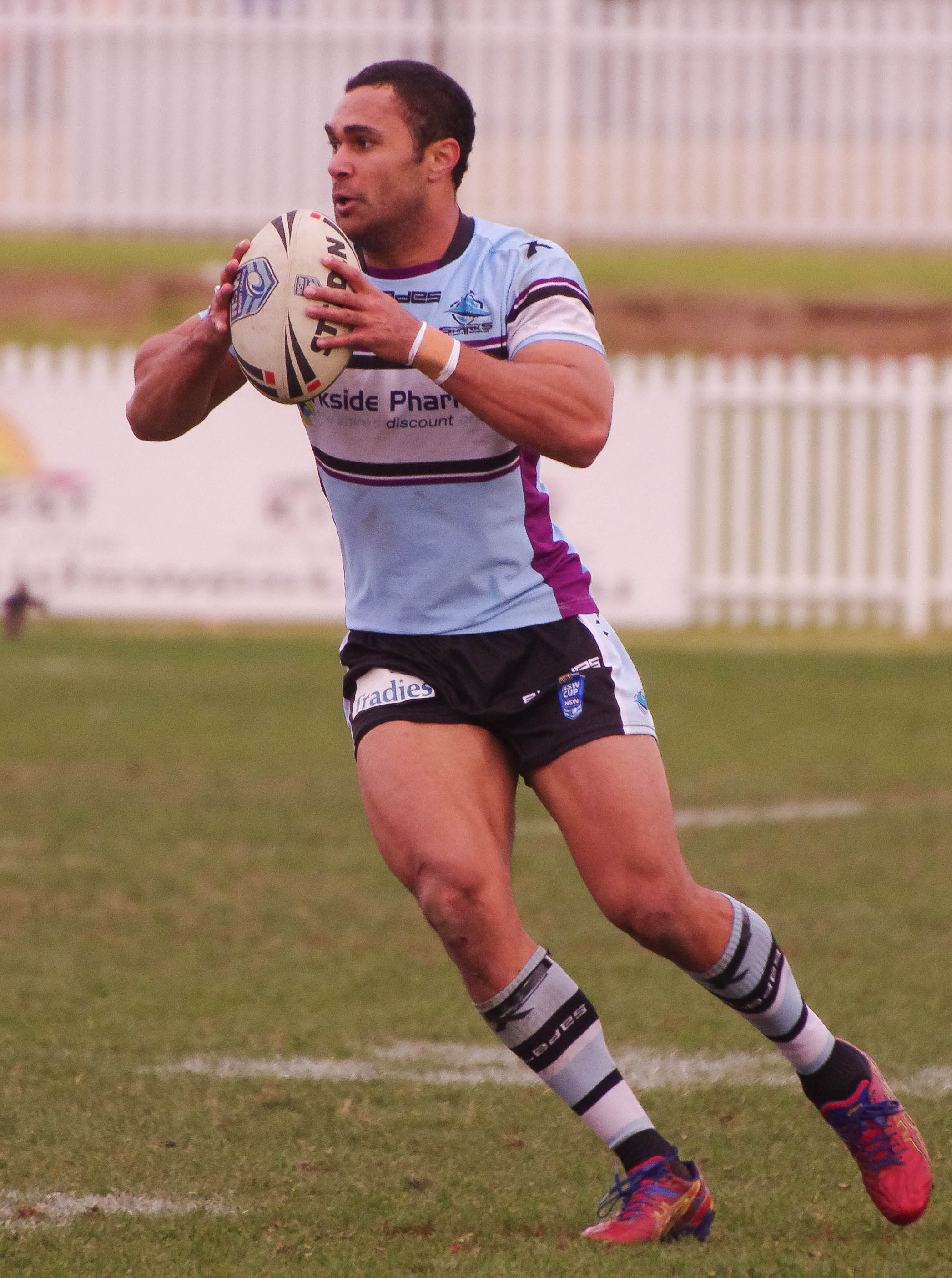 Justin O'Neill